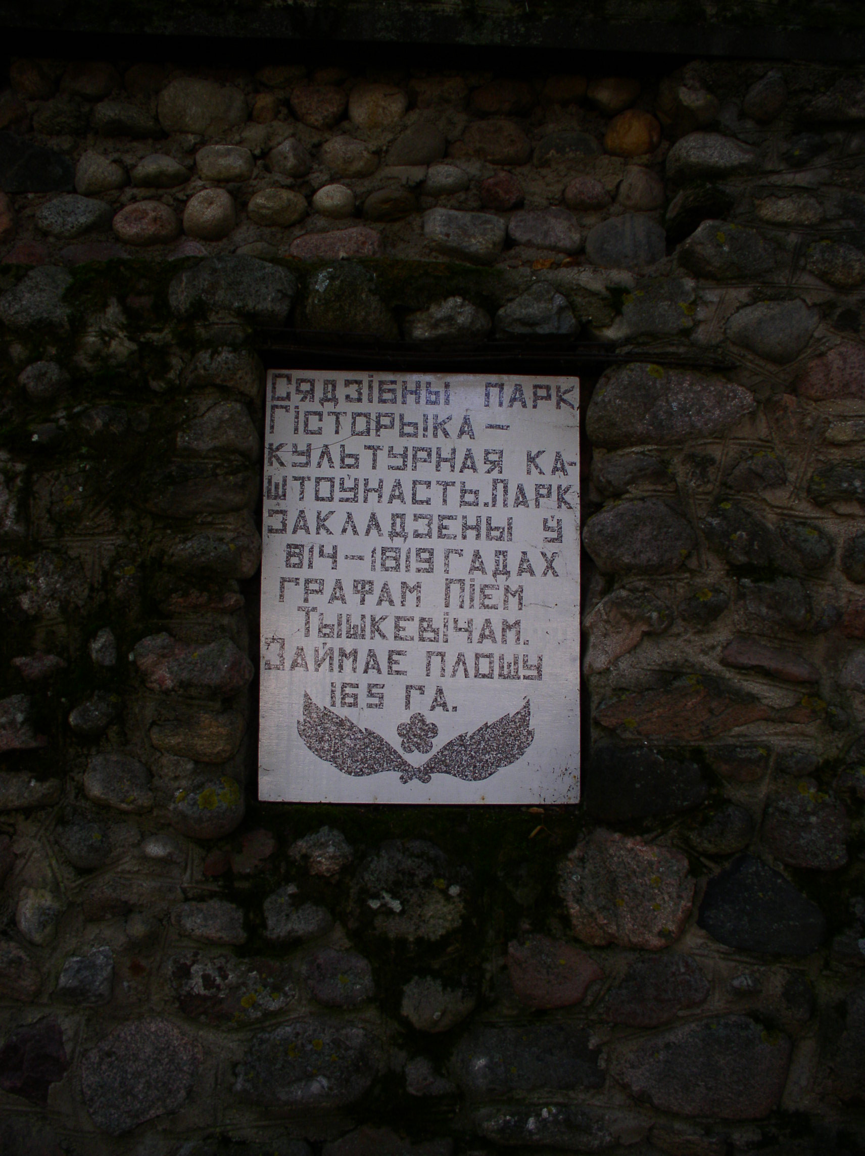 Park of the former Tyszkiewicz family manor. Lahoisk, Belarus.